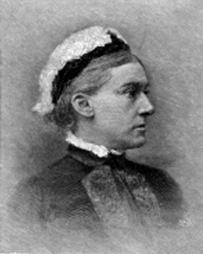 Photo of Rhoda Broughton, from about 1870